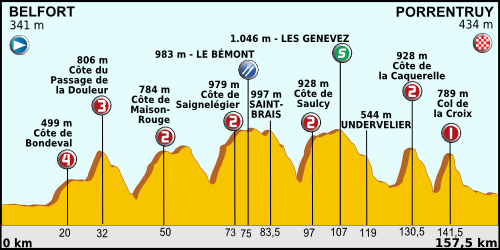 Profil of the 8th stage of the Tour de France 2012